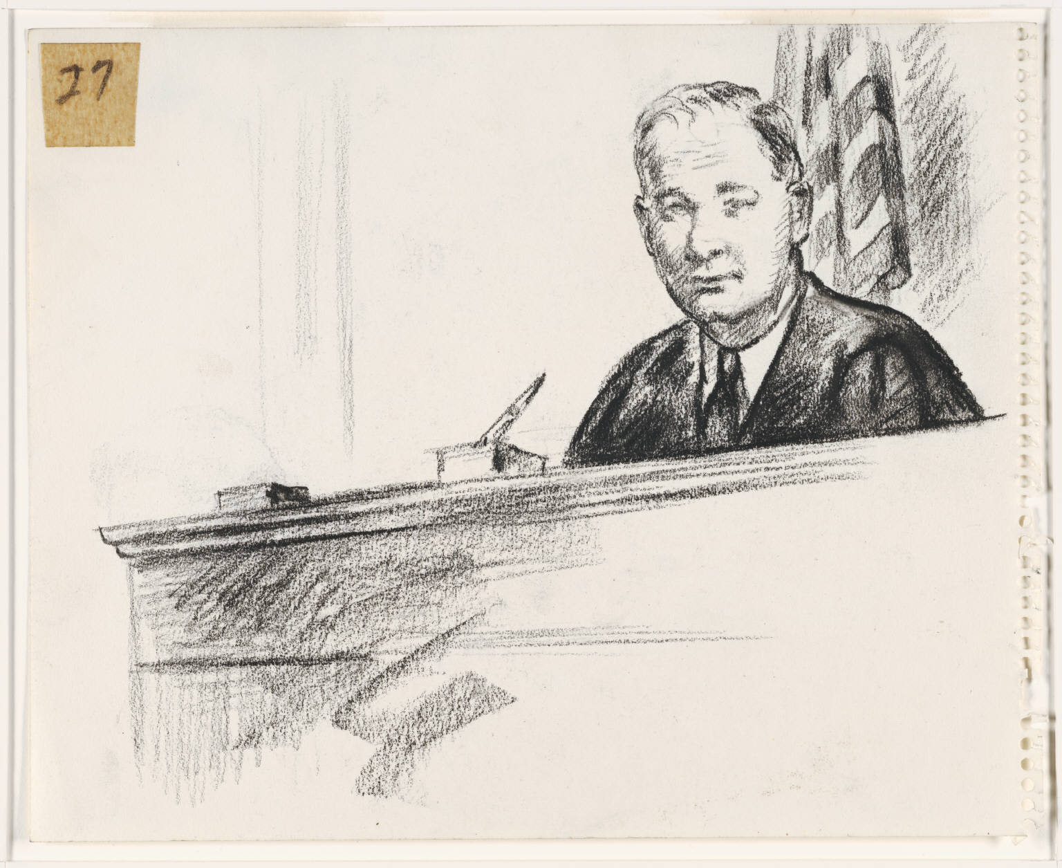 Author/Creator: Seale, Bobby, 1936- Markle, Arnold. Date: 1971. Part of: Robert Templeton Drawings and sketches related to the trial of Bobby Seale and Ericka Huggins, New Haven, Connecticut. Physical Description: 1 drawing ill., oil pastels 20.4 x 24.8 cm. Folder or box number: Box 3 Subjects: Mulvey, Harold M., 1914-2000 Black Panther Party. African American political activists. Black militant organizations. Black power. Political activists. Trials (Conspiracy) Trials (Kidnapping) Trials (Murder) Connecticut. Superior Court (New Haven County) Genre/Form: Drawings Portraits Pastels (Visual works) Cite as: Yale Collection of American Literature, Beinecke Rare Book and Manuscript Library Repository: Beinecke Rare Book & Manuscript Library, Yale University Bibliographic Record Number: 2029964 Call Number: JWJ MSS 33 View our Record: Permalink Flickr data on 2011-08-26: License: CC BY-SA 2.0 User: Beinecke Library